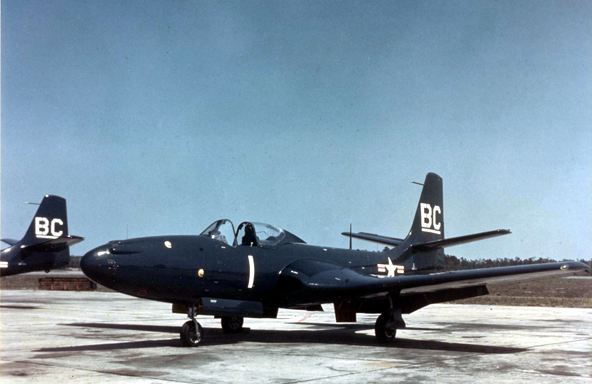 U.S. Marine Corps McDonnell FH-1 Phantoms of Marine Fighter Squadron VMF-122.